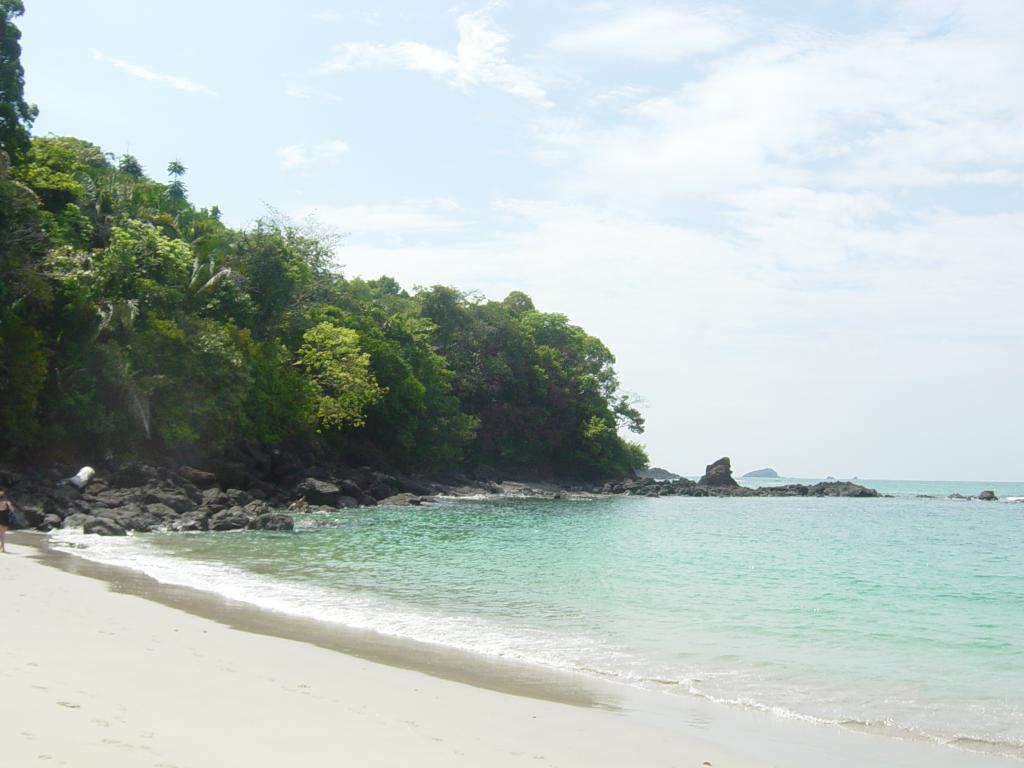 Author: Jacob Norlund Taken in Manuel Antonio National Park, in Costa Rica on April 6, 2005. Resized from 2048 x 1536 prior to uploading.